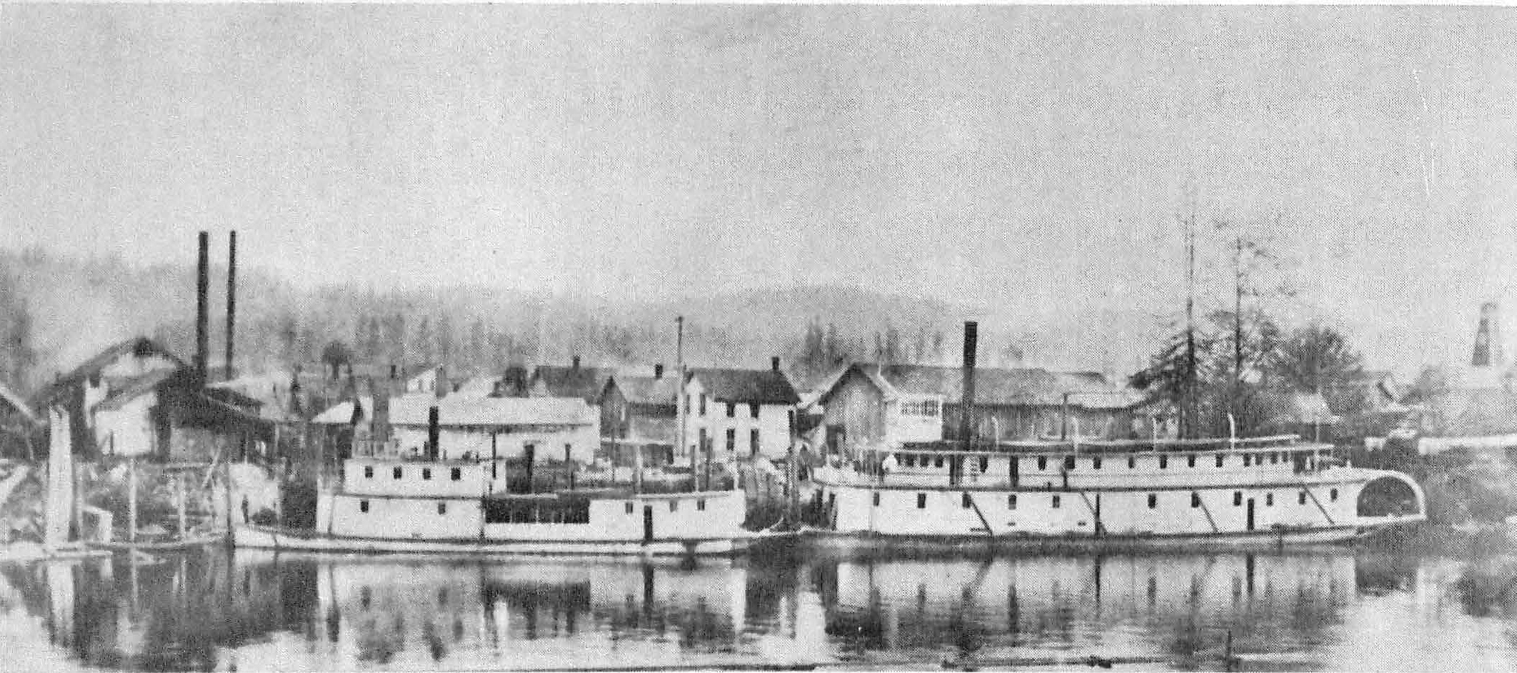 Steamers Chester (on left) and Northwest (on right) at Castle Rock, Washington, circa 1905. Chester has had an upper cabin added after its initial construction in 1897. Northwest was transferred to Alaska in 1907.